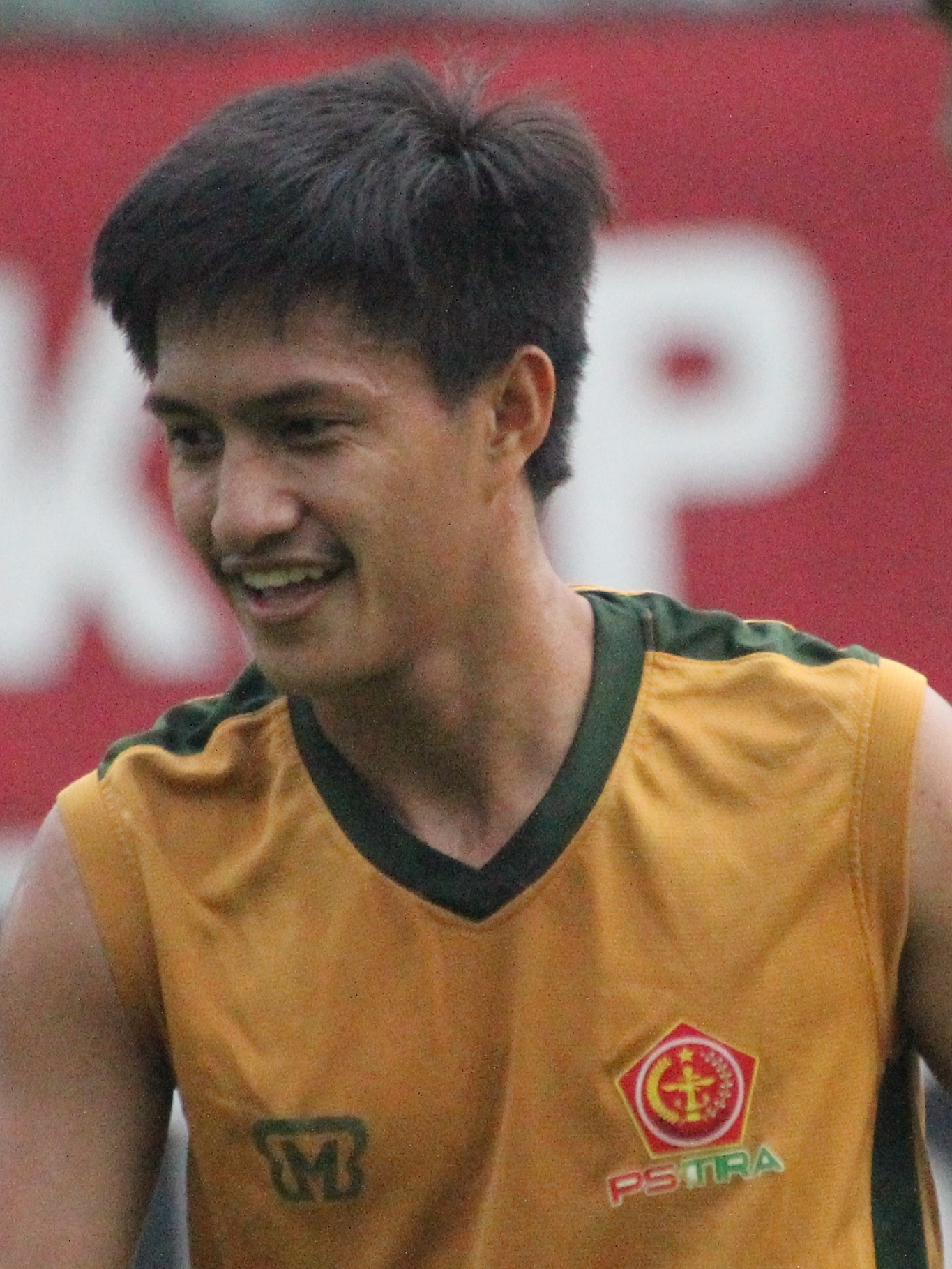 PS Tira player, Mahdi Albaar